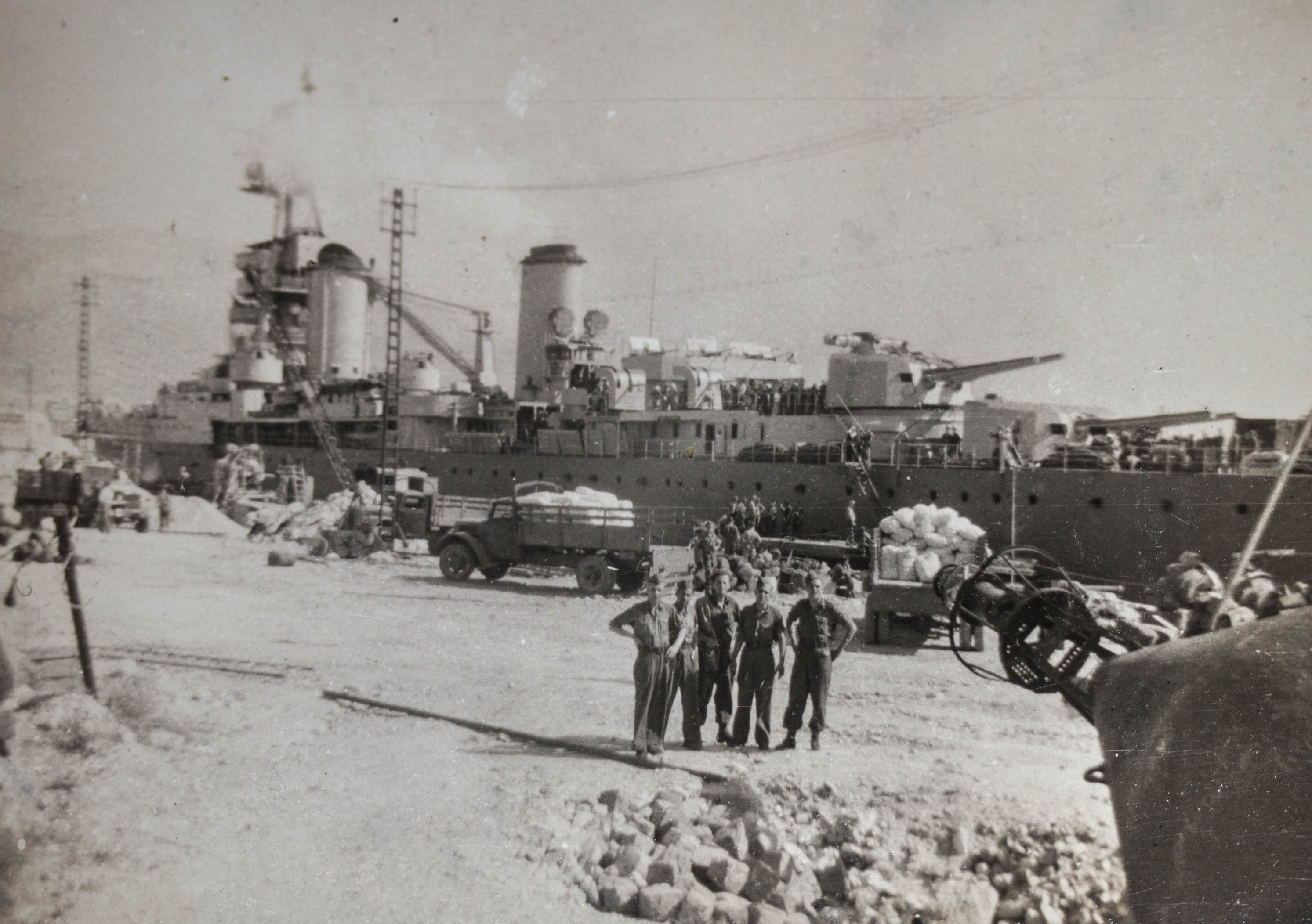 The French heavy cruiser Suffren at Toulon, France on 21 September 1945.